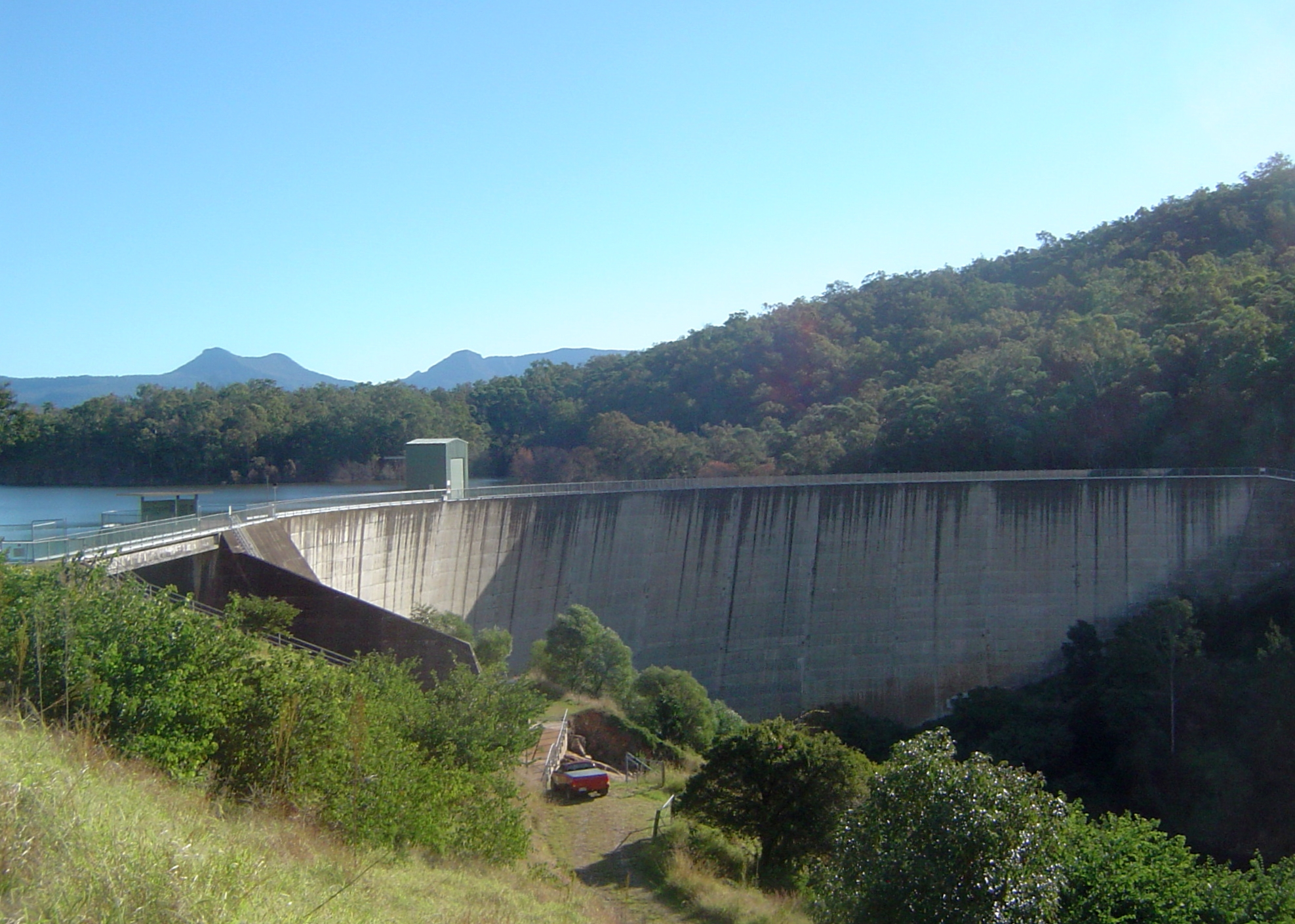 Lake Moogerah dam wall. Part of Mount Edwards is seen in the right while in the background is Cunninghams Gap